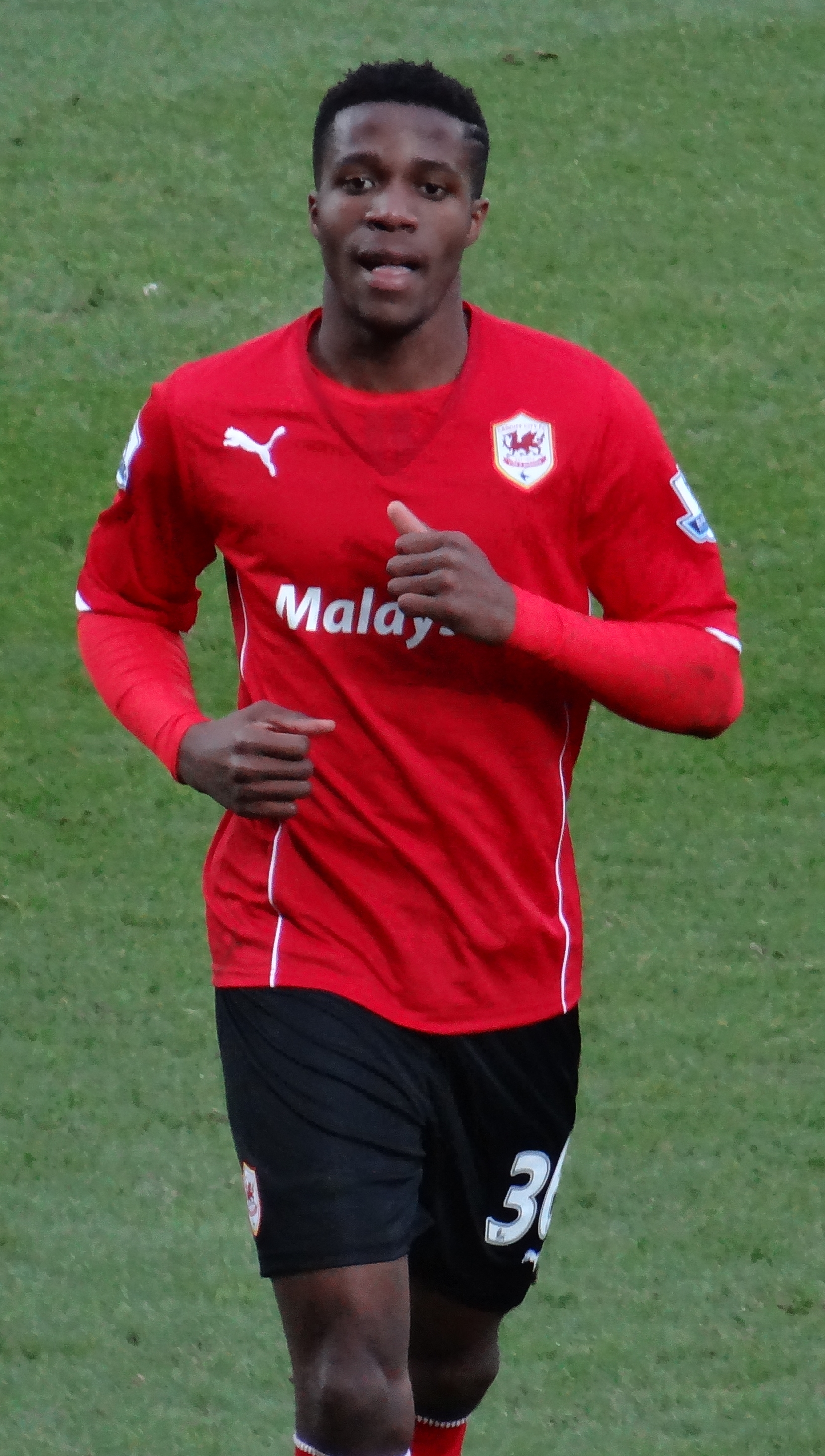 Wilfried Zaha playing for Cardiff City against Norwich City at Cardiff City Stadium 1 February 2014